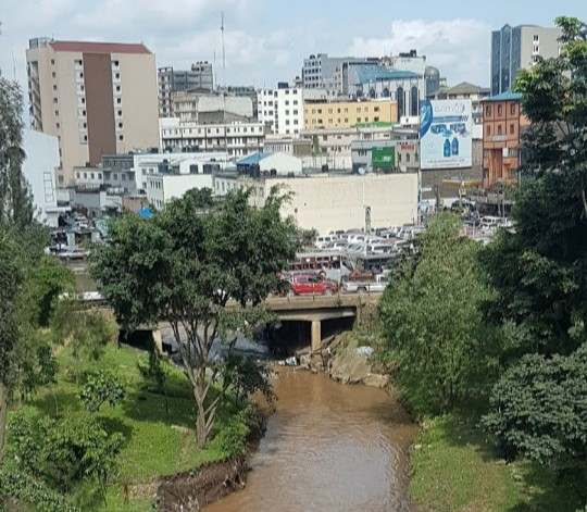 Nairobi river flowing near globe roundabout